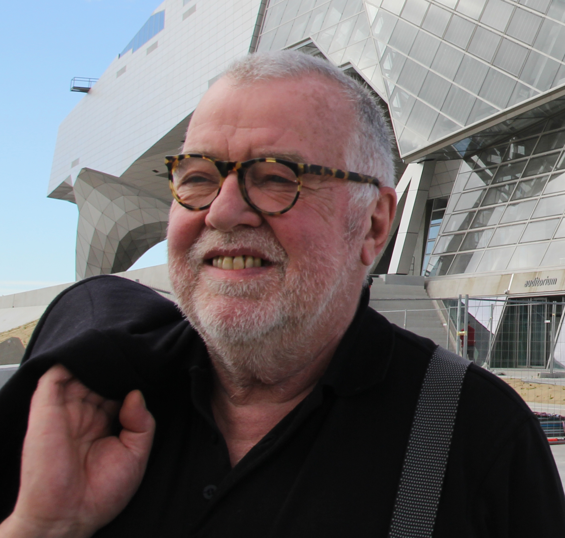 Helmut Swiczinsky in front of the "Musée des Confluences" in Lyon